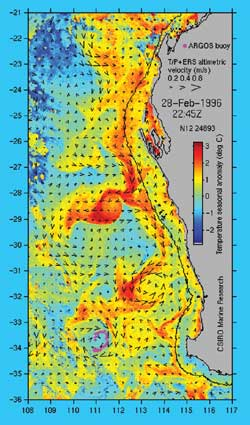 Satellite imagery from US NOAA 14 satellite while the surface current velocity is derived from sea level measurements made by the satellite-borne altimeter. Sea level data from the US/French Topex/Poseidon and European ERS altimeters are combined with coastal tide gauge data to make this velocity map.